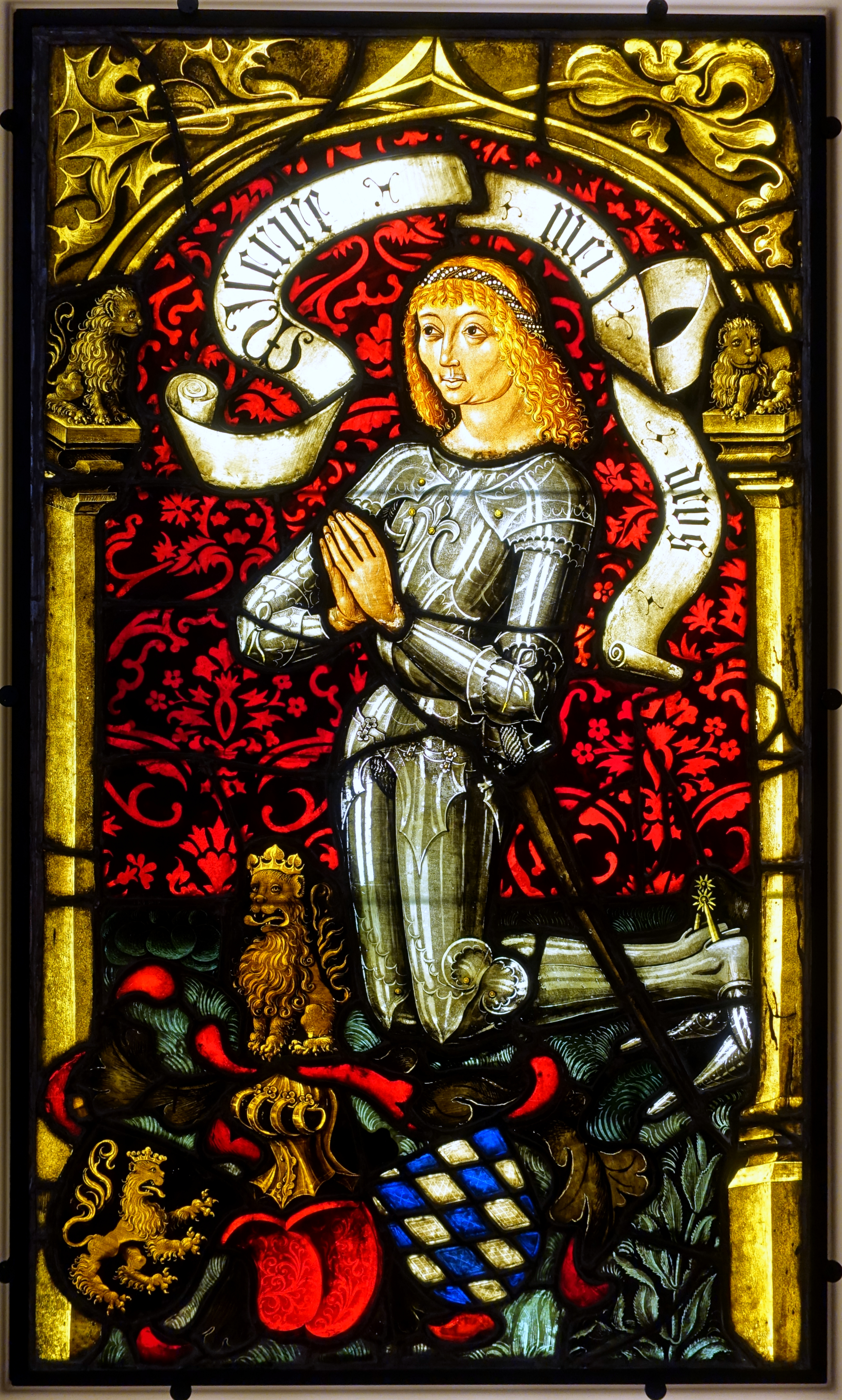 Exhibit in the Hessisches Landesmuseum Darmstadt - Darmstadt, Germany.